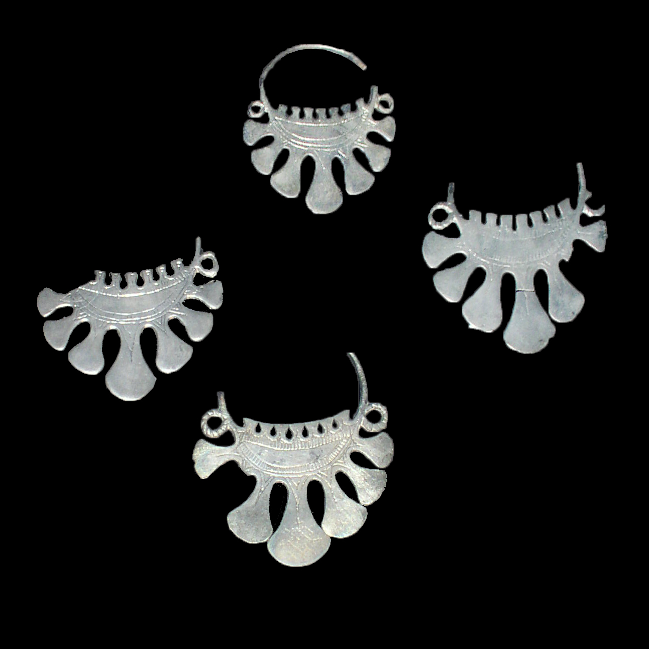 A seven-blade temple ring of the Viatsichy tribe. 11-13th. Silver. National museum of history and culture of Belarus. Karl Marx street, 12. Minsk, Belarus.